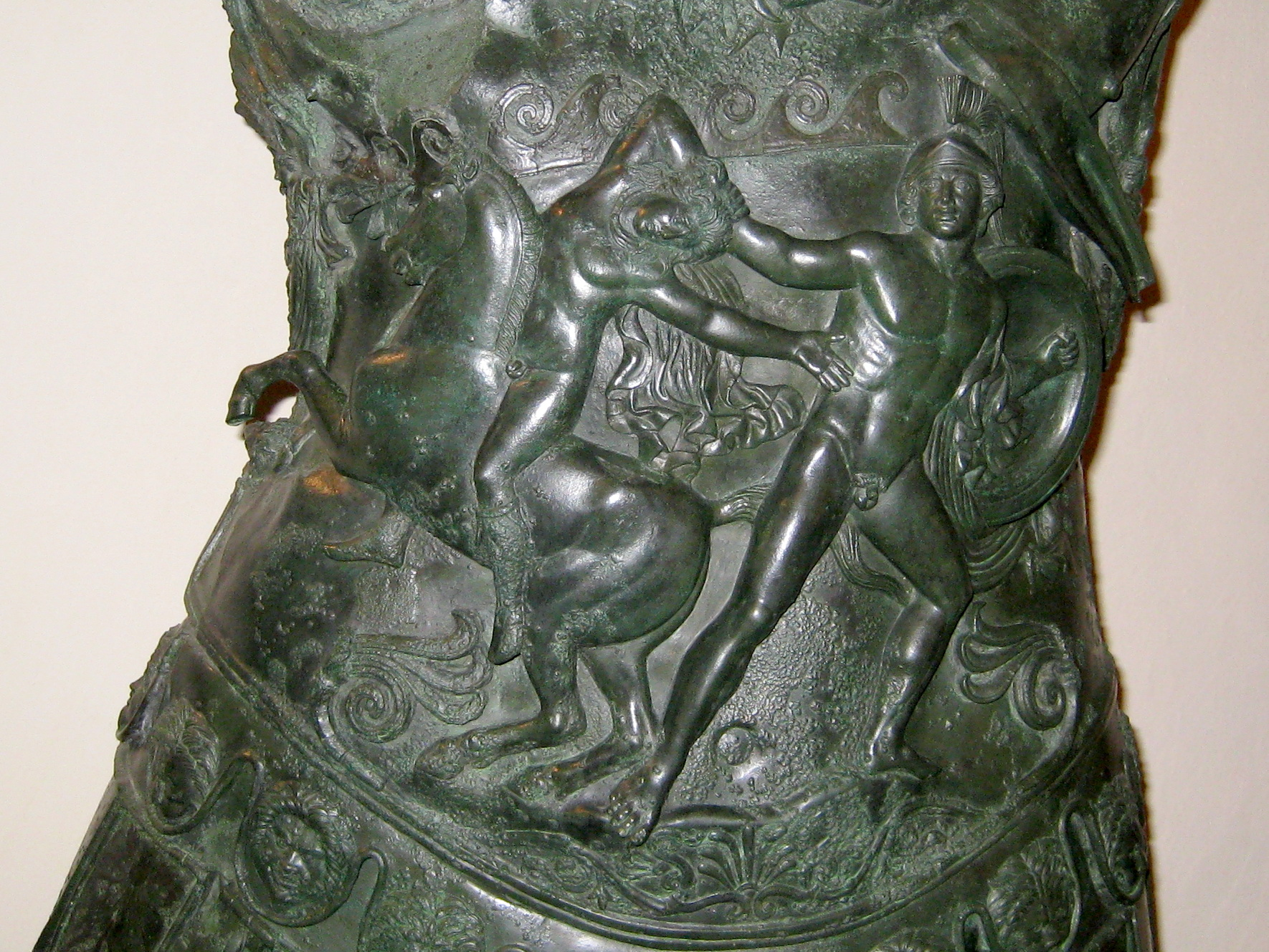 Base relief from statue of Emperor Germanicus, 2nd c. CE, Archeological Museum of Perugia